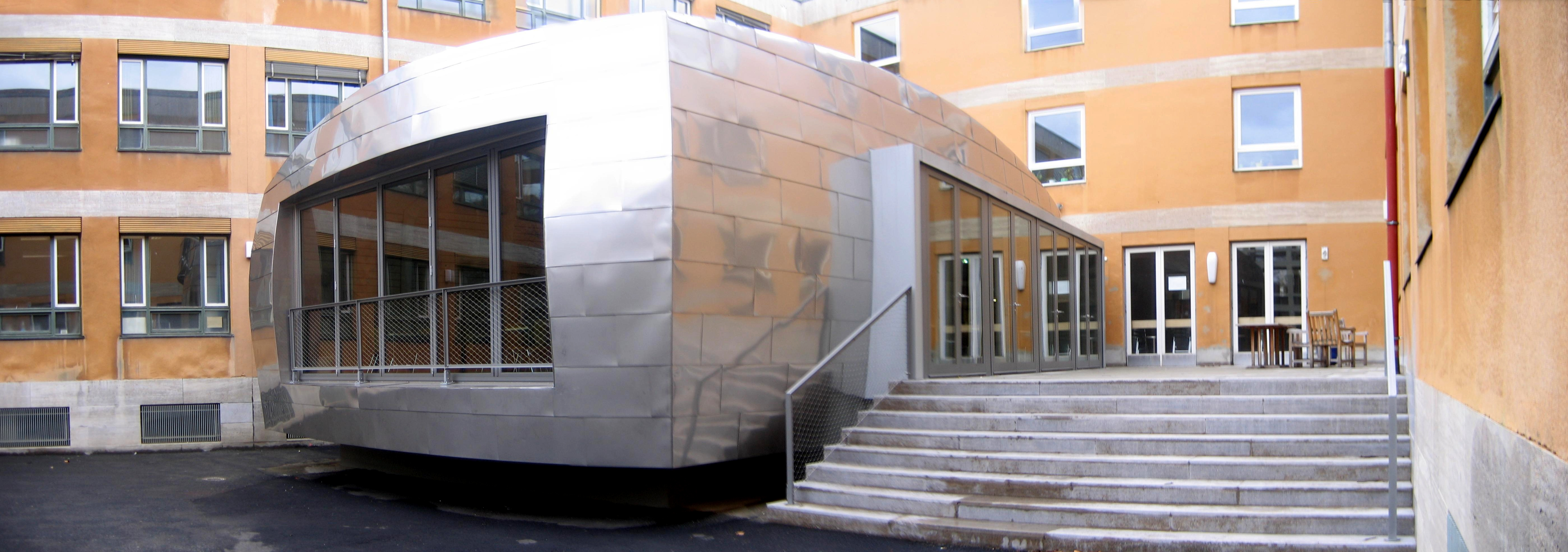 the cafeteria of the Wirsberg-Gymnasium built in 2007.